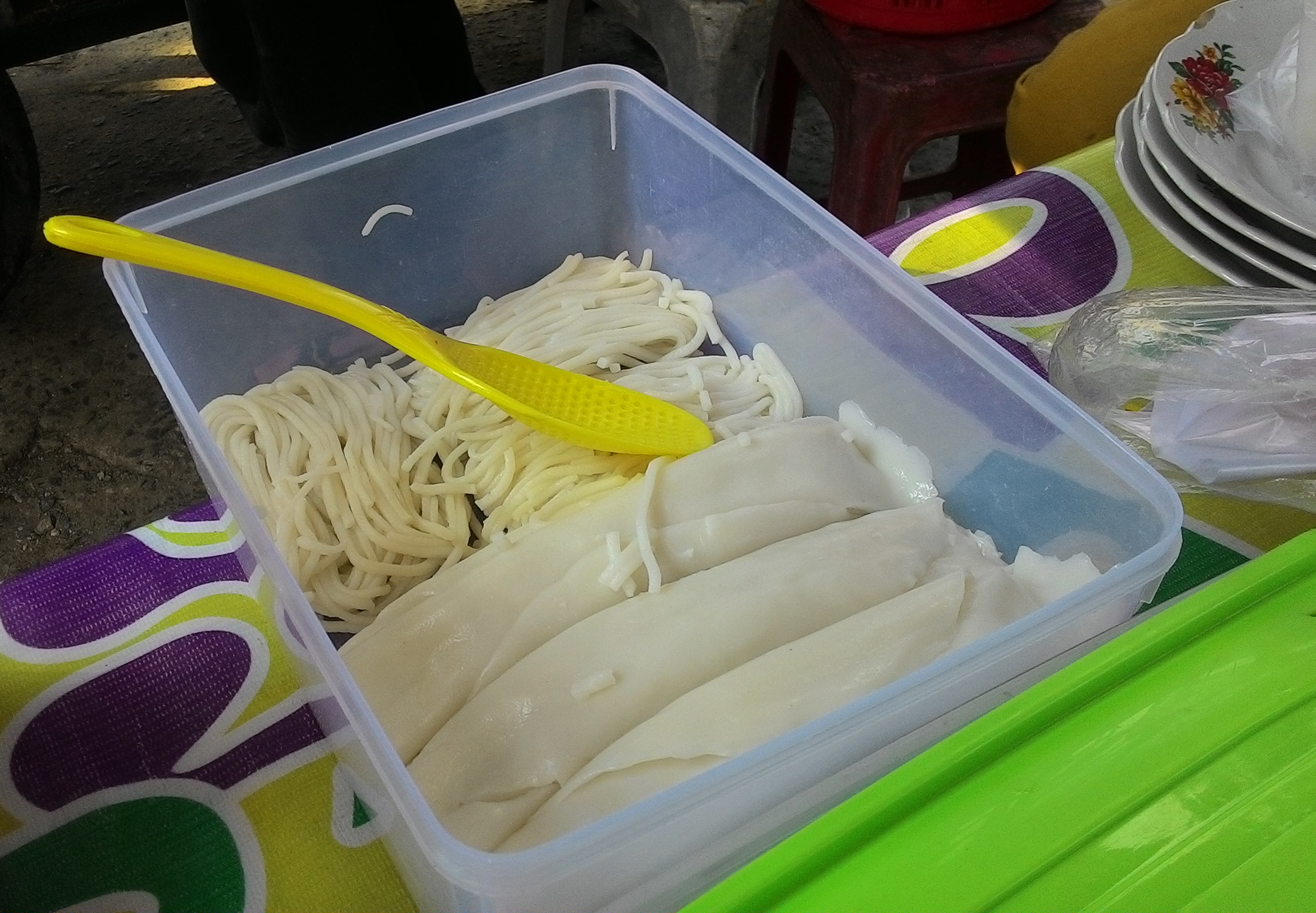 Lakso and Burgo main ingredients are basically the same; rice flour-based cake made into a thin layer of folded pancake, or made as noodle. Specialty of Palembang cuisine, South Sumatra, Indonesia.